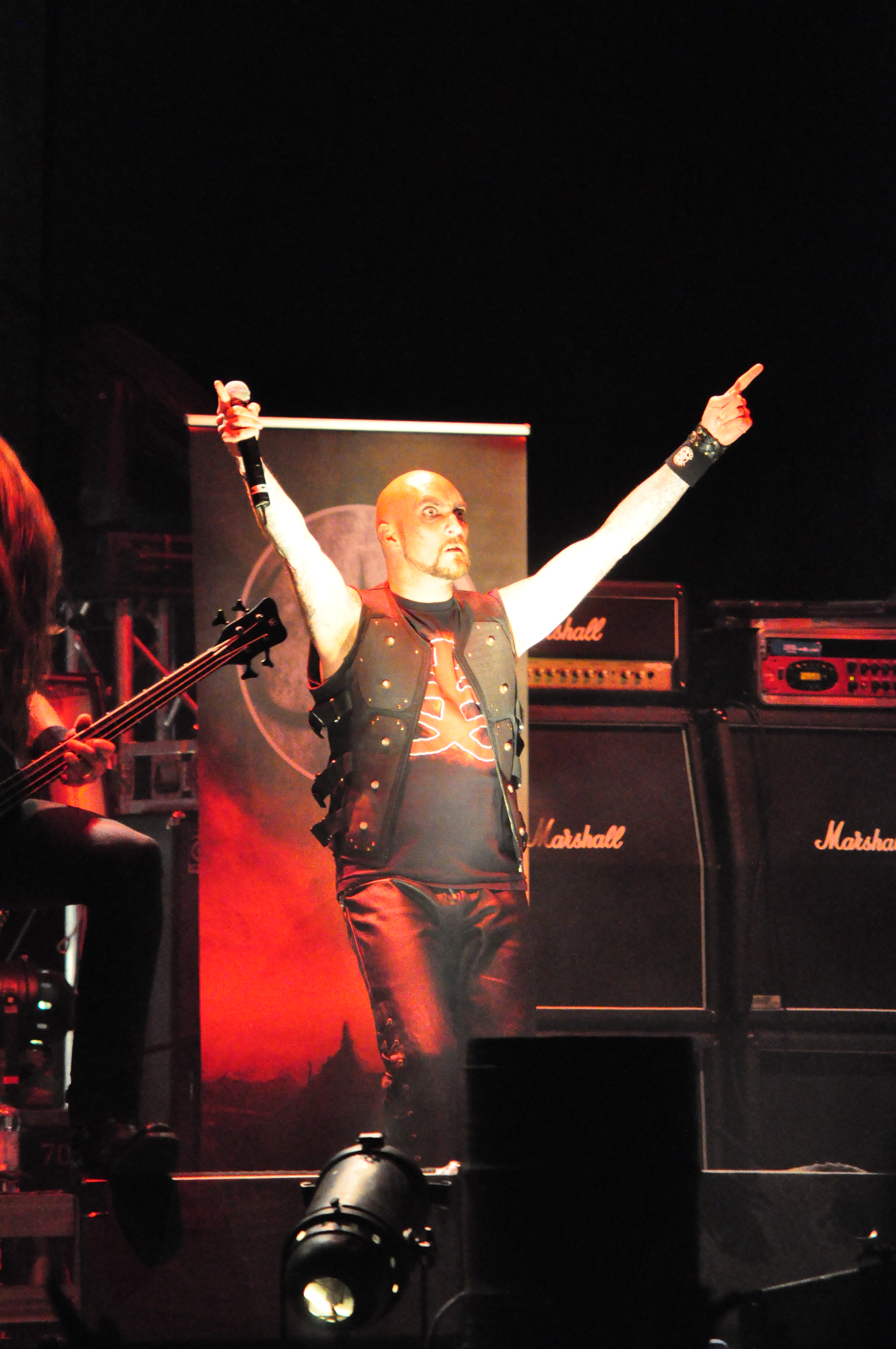 Naglfar at Party.San Open Air 2012